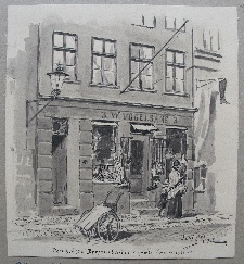 Antonistræde 3 - Børstenbinder W. Vogelsang in Copenhagen, Denmark